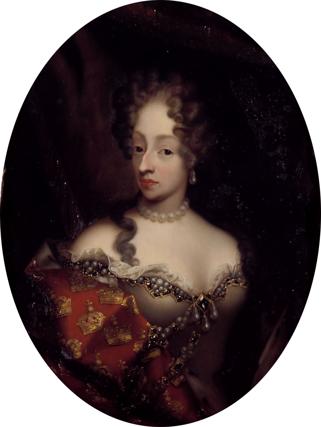 Margravine Charlotte Amalie of Hesse-Kassel (1650-1714), Queen consort of Denmark and Norway.